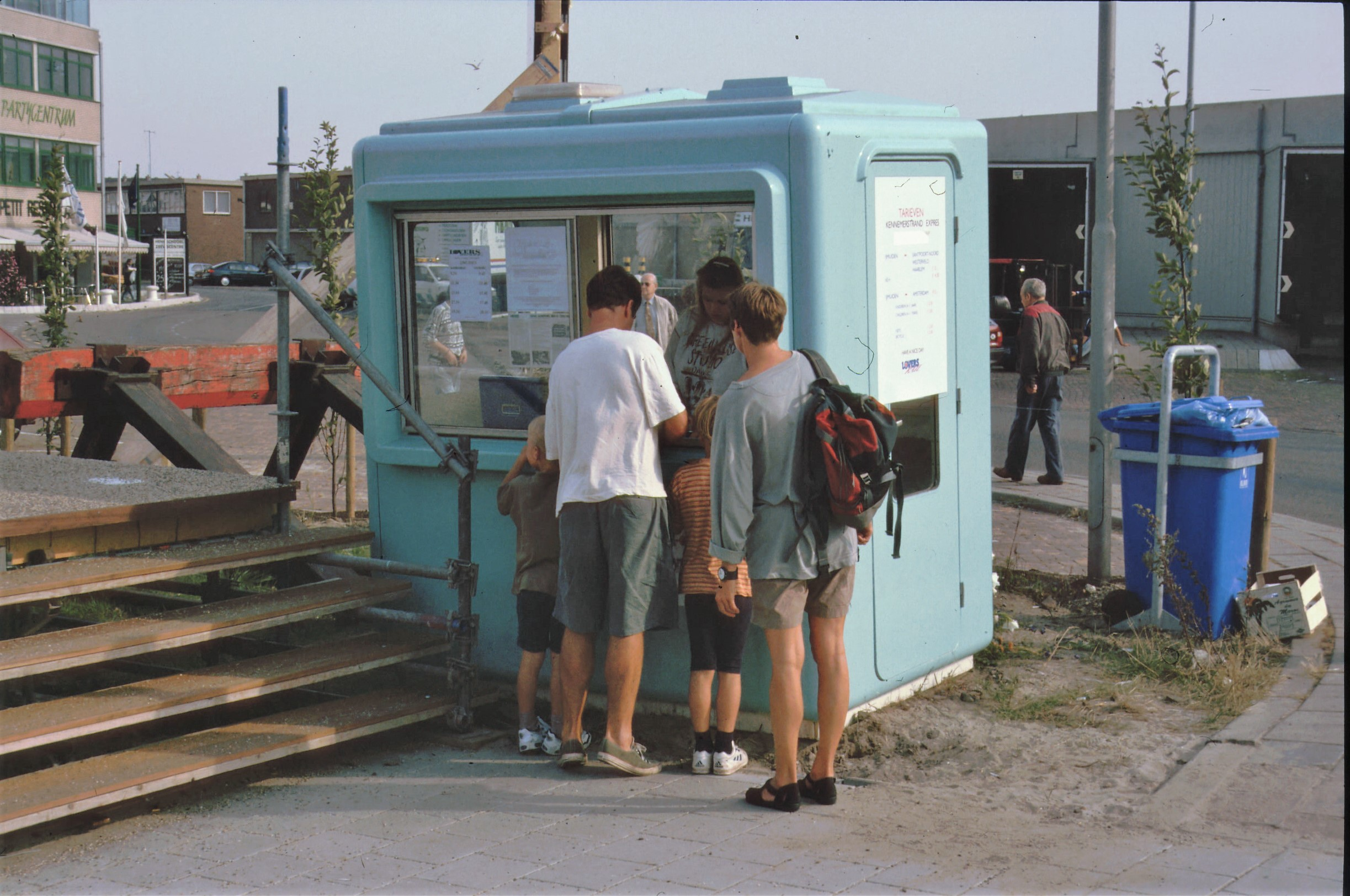 Lovers Rail - Kennemer express at IJmuiden station